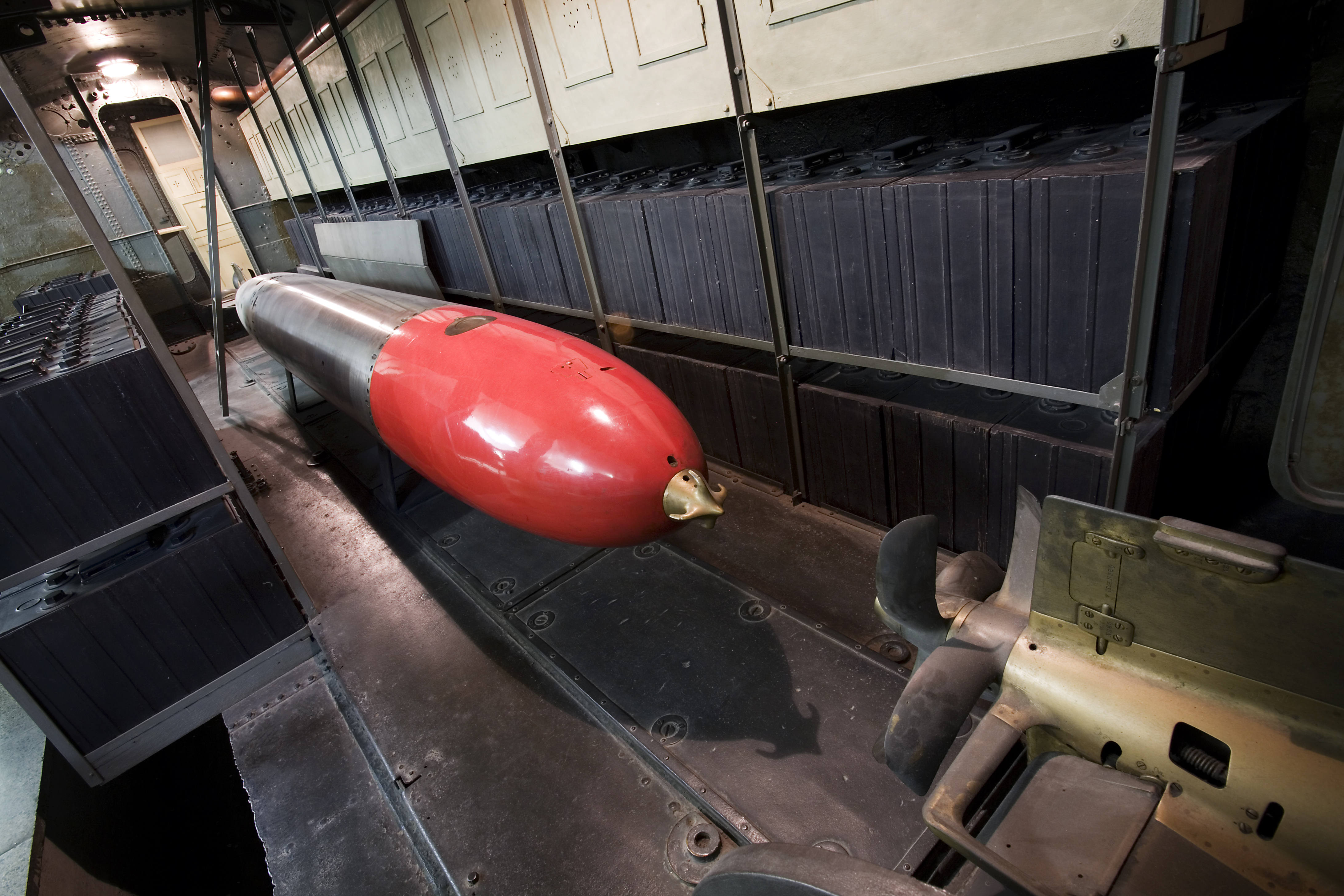 Torpedo room and battery room in a U-Boot U-1 1906 U-Boat Deutsches Museum, Museumsinsel, Munich, Germany